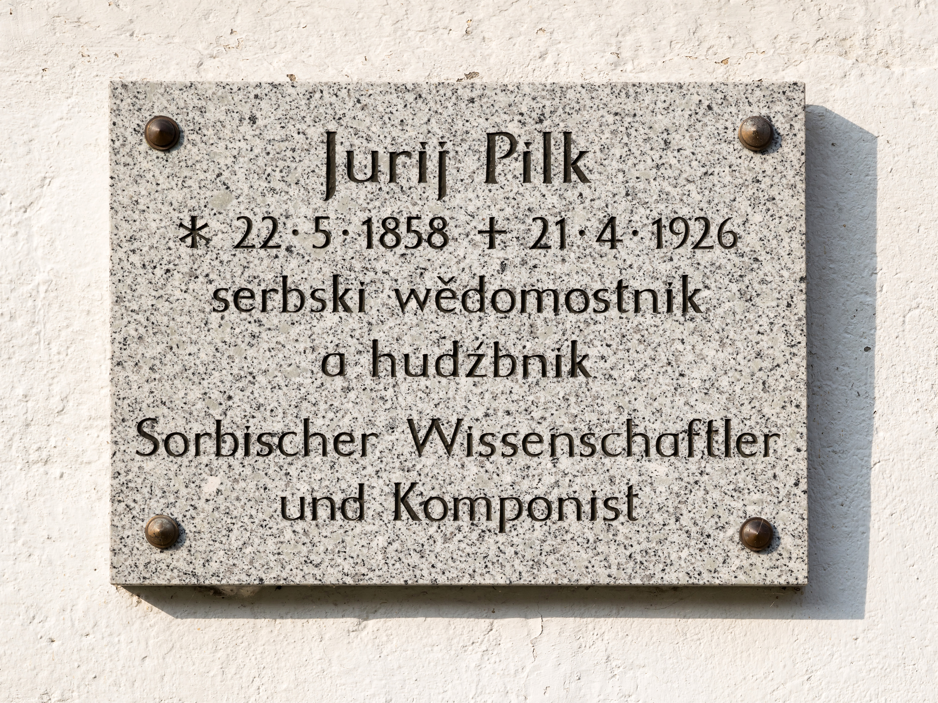 Jurij Pilk, Sorbian scientist and composer, memorial plaque in Göda